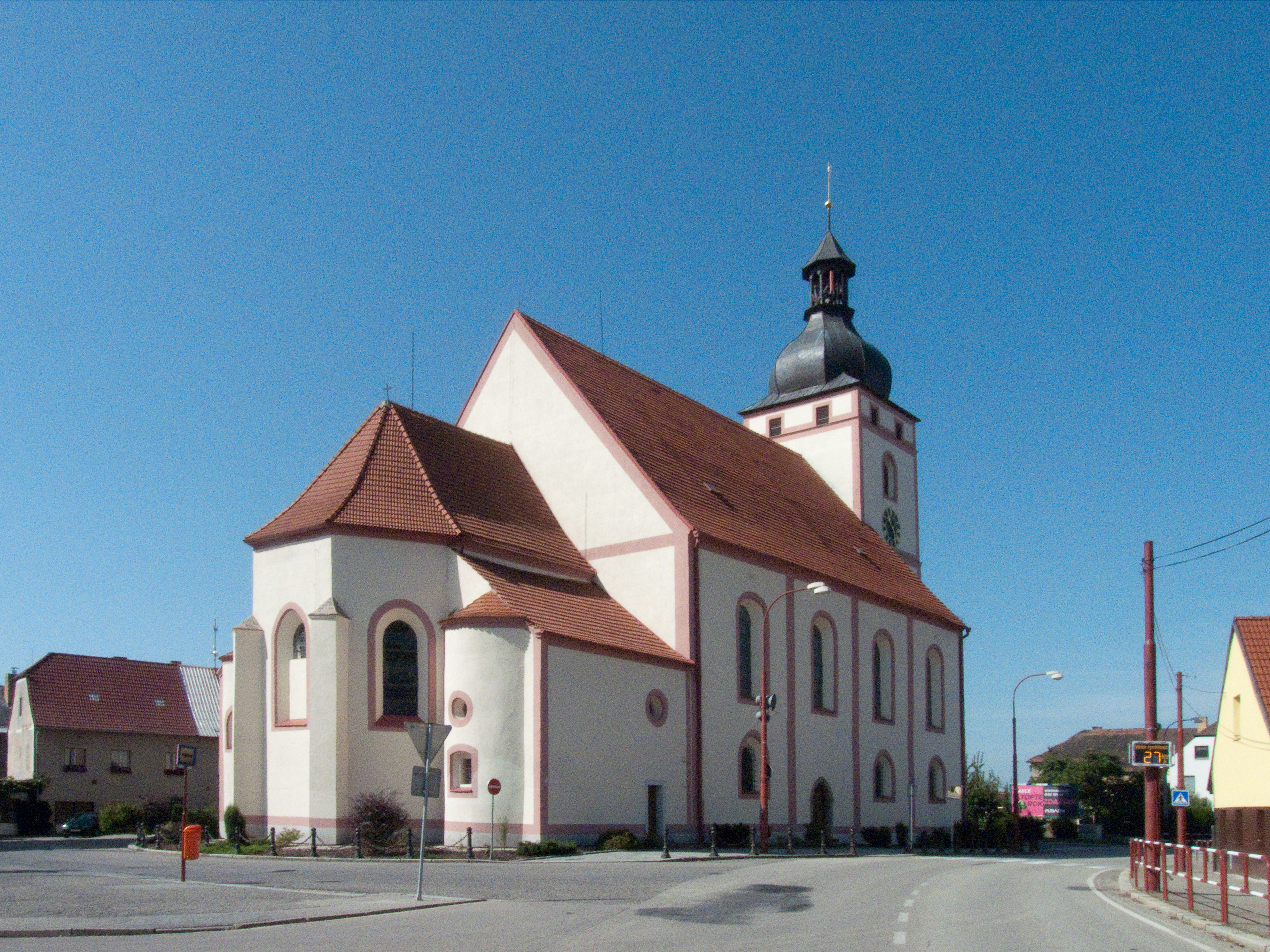 St Vitus Church in Rudolfov, České Budějovice district, Czech Republic from Třeboňská Street